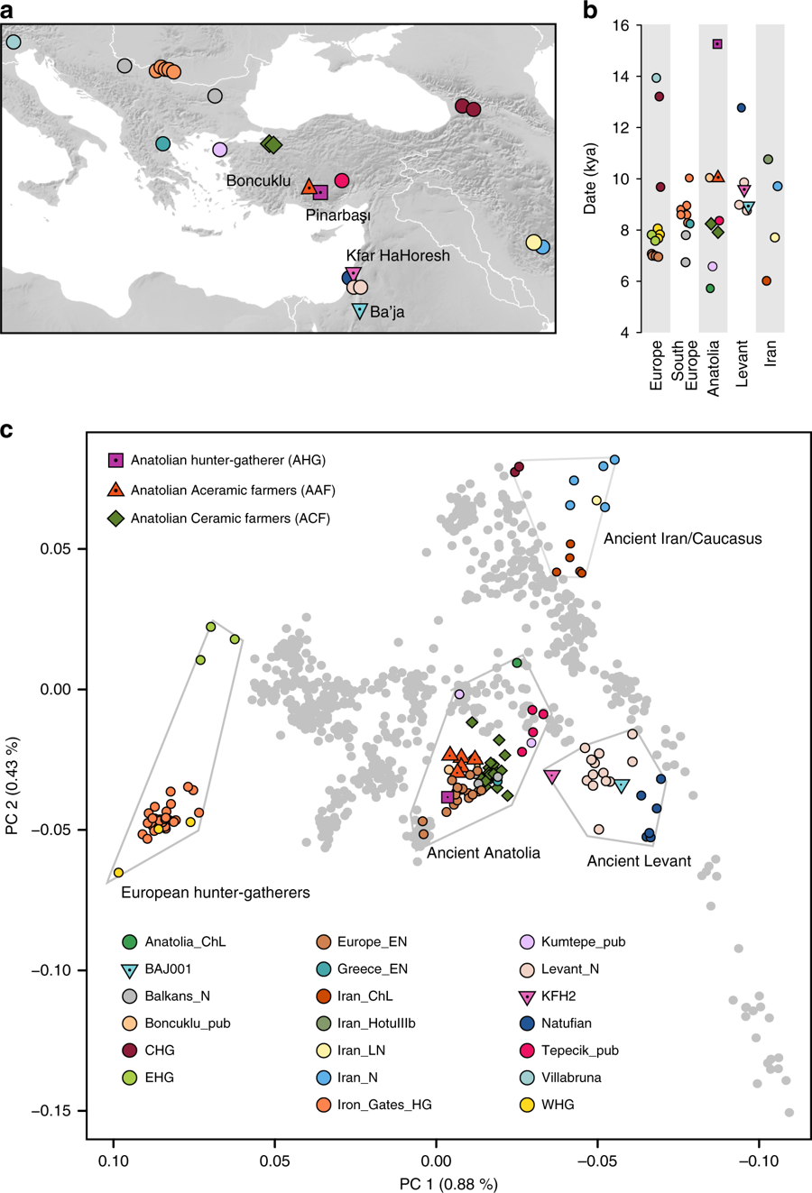 Principal component analysis, datation and geographical origin of the individuals analyzed in Feldman et al. (2019) Late Pleistocene human genome suggests a local origin for the first farmers of central Anatolia.